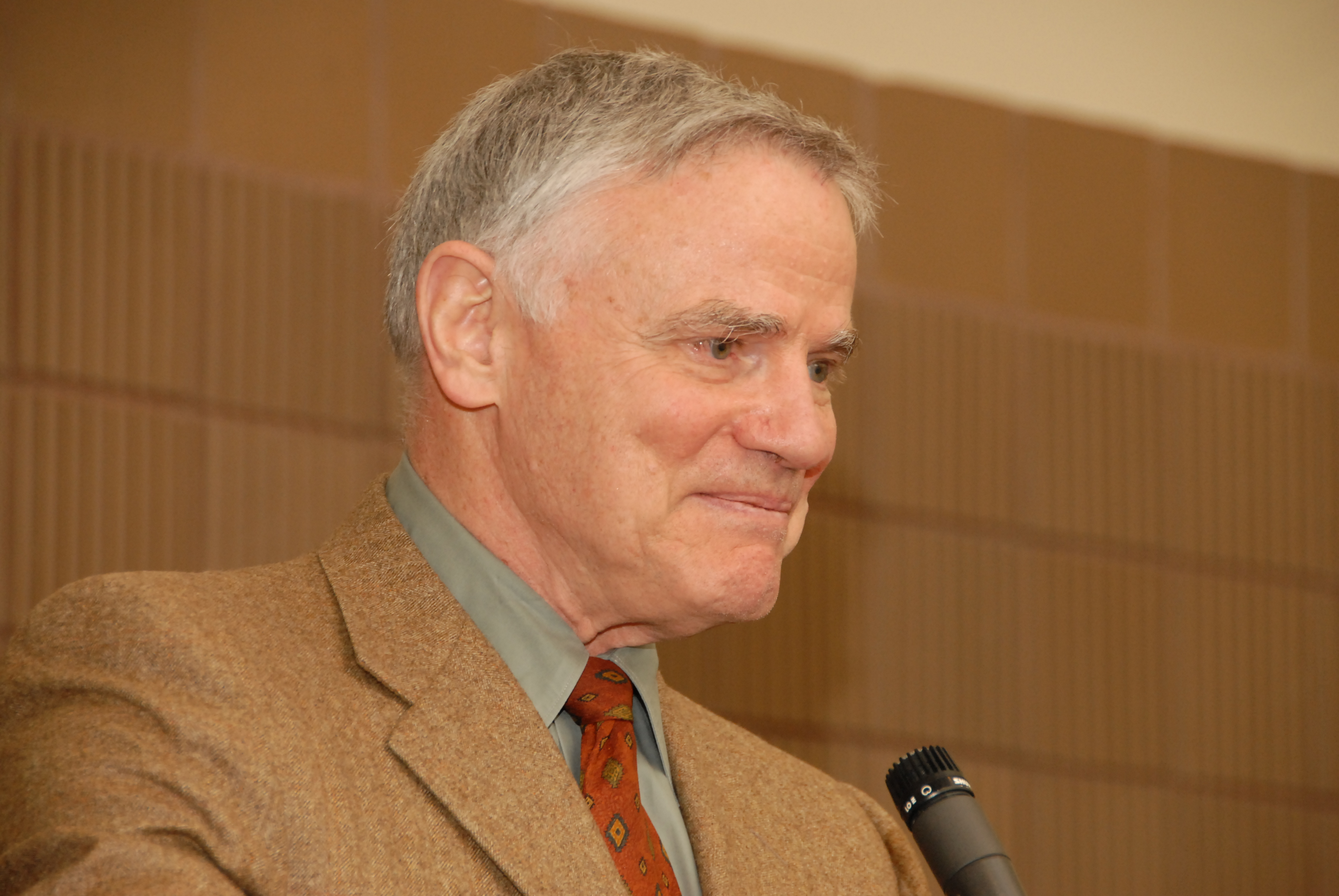 Photograph of Leroy Hood, recipient of the 2008 Pittcon Heritage Award, jointly sponsored by the Pittsburgh Conference on Analytical Chemistry and Applied Spectroscopy (Pittcon) and the Chemical Heritage Foundation.